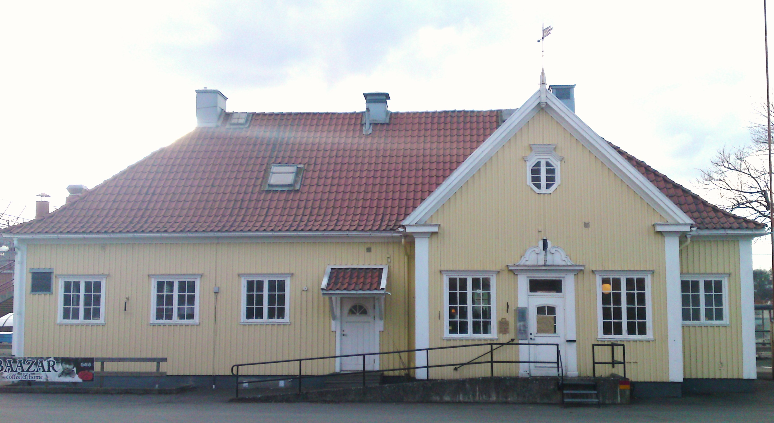 Sävsjö station